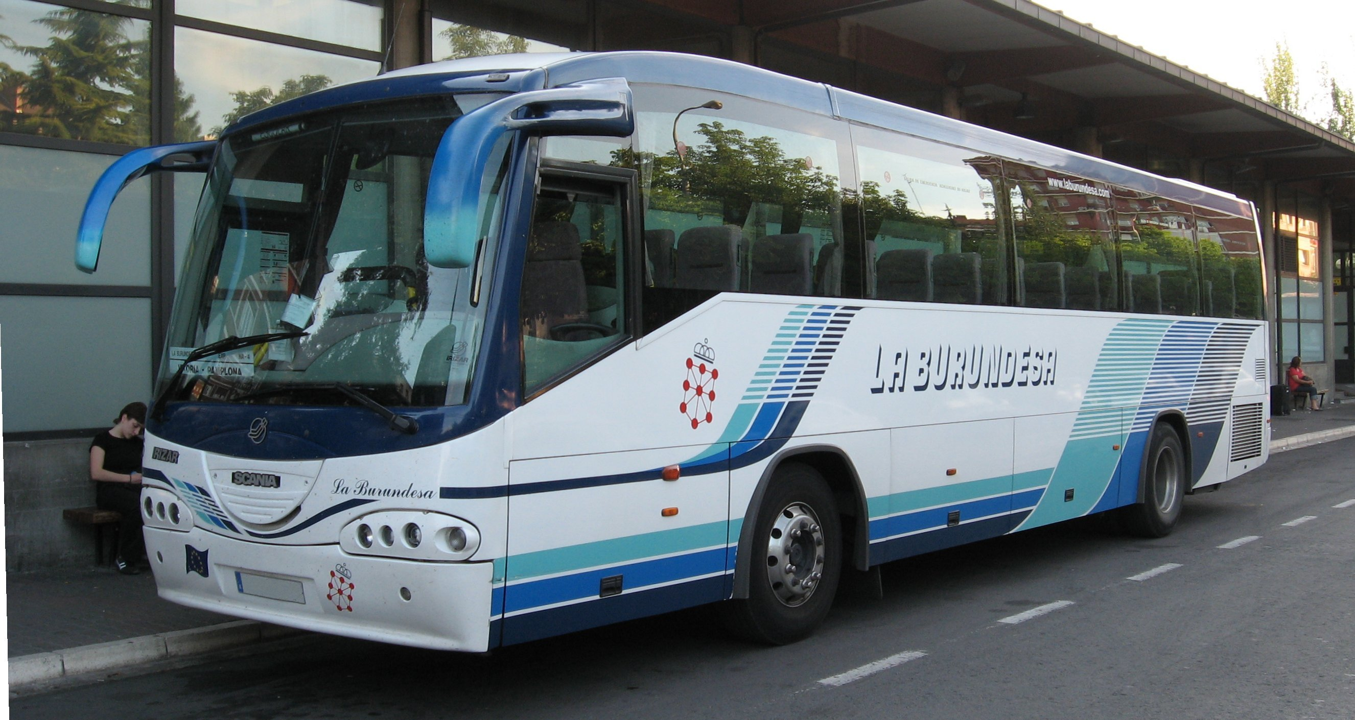 Desc: Autobus Irizar New Century en Vitoria-Gasteiz